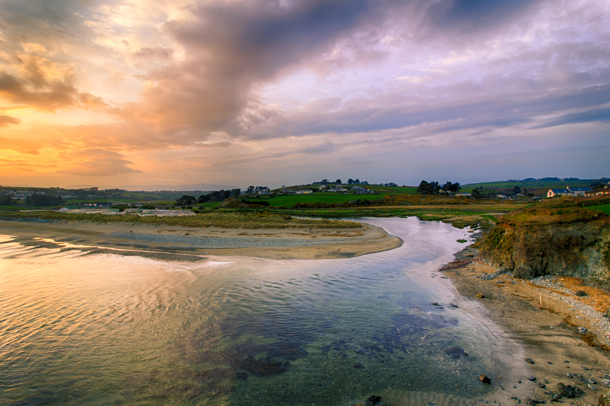 Bonmahon Beach with the Mahon river entering the sea. In the background are the Comeragh mountains.